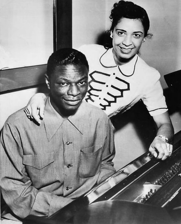 Photo of Nat King Cole and his wife, Maria.